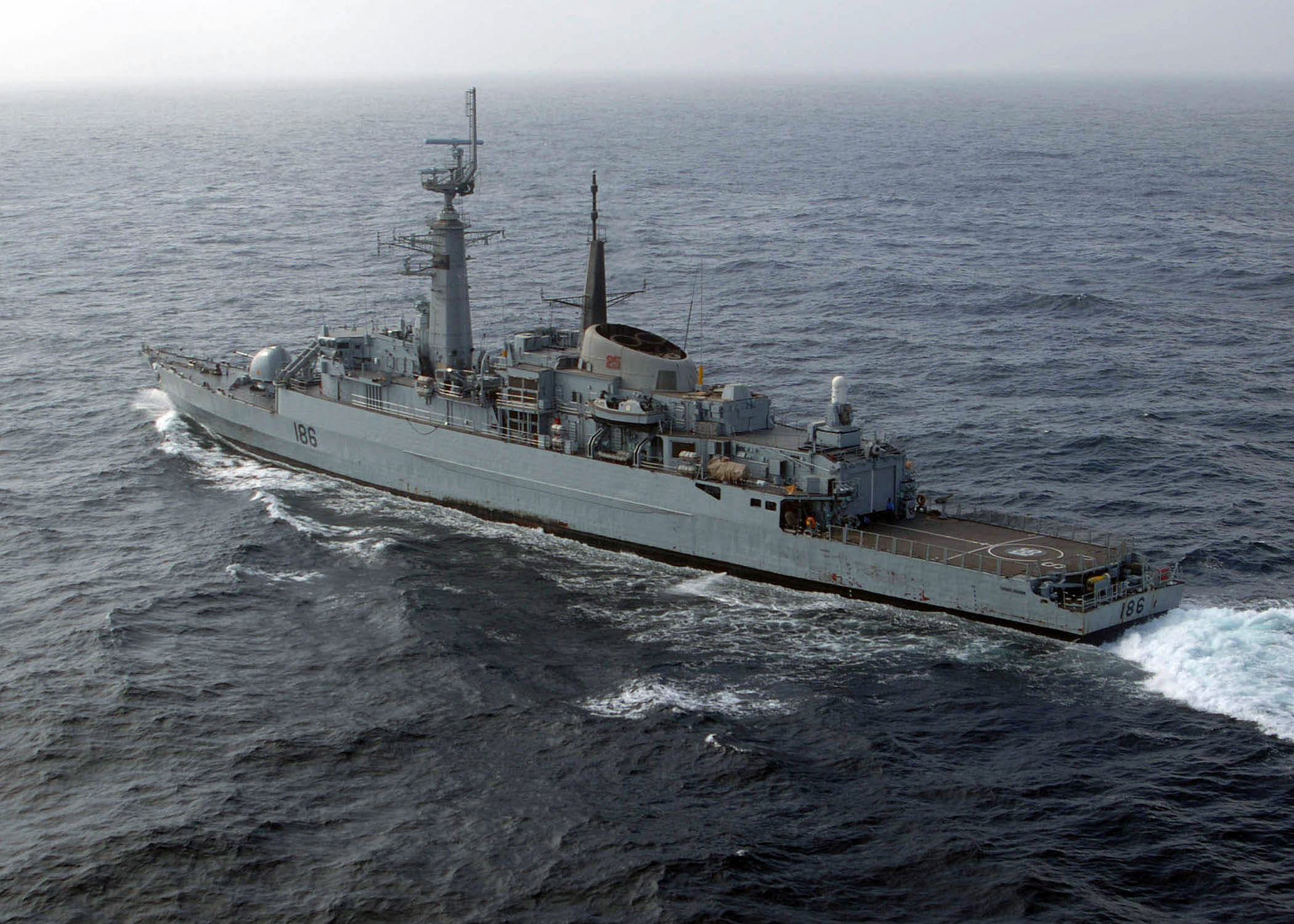 Port side view of the Pakistan Navy Tariq Class Frigate PNS (Pakistani Naval ship) SHAHJAHAN (DDG 186), underway participating in Operation INSPIRED SIREN. INSPIRED SIREN is a bilateral joint exercise between the United States and Pakistan Navies.